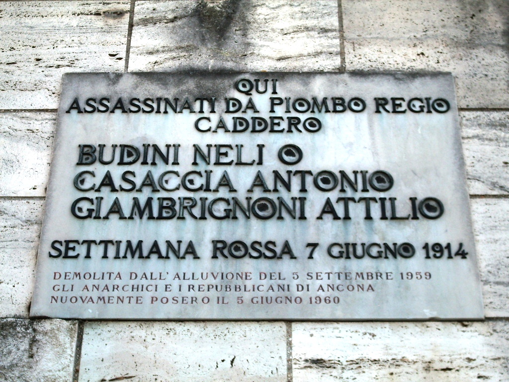 Italy Ancona Via Torrioni - dead 1914 plate